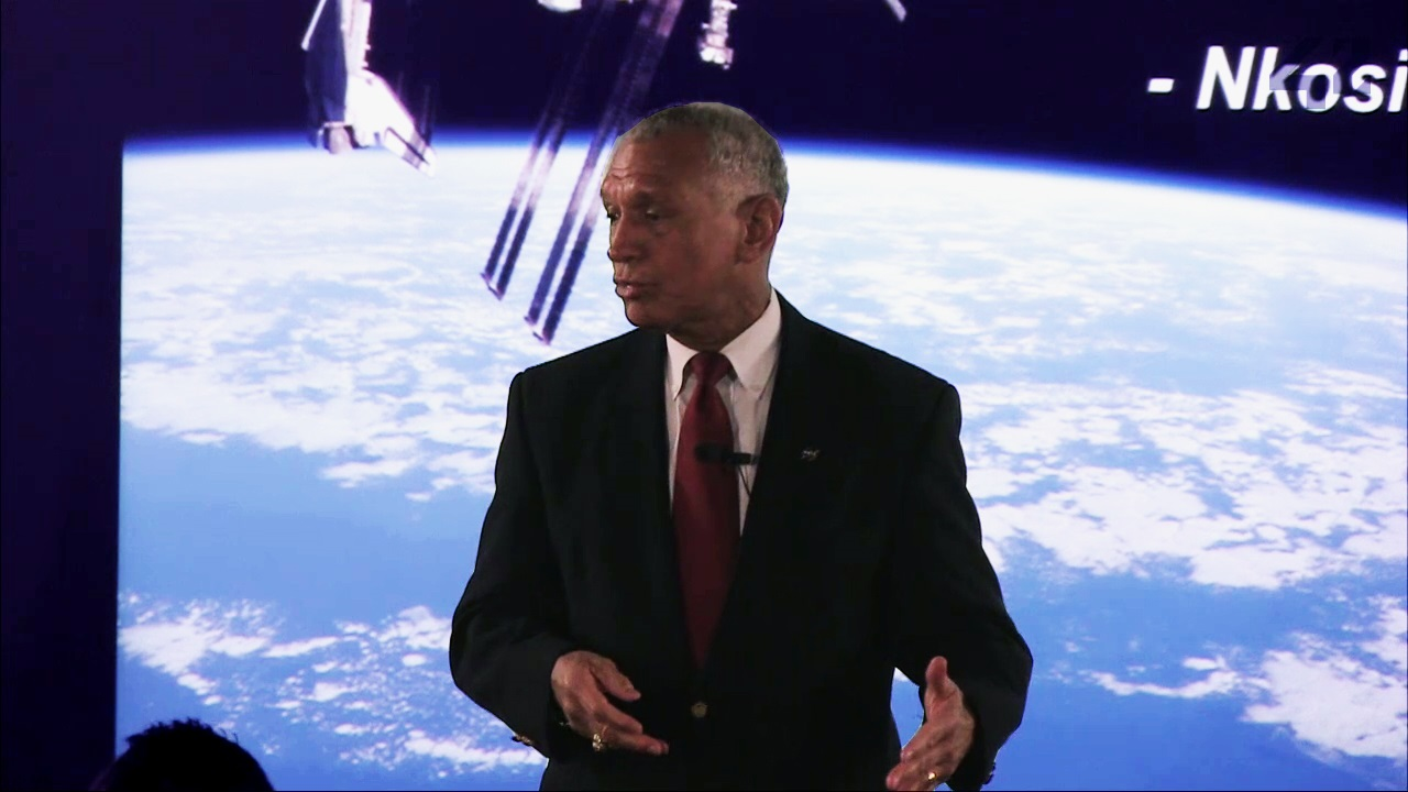 Charles F bolden at 42